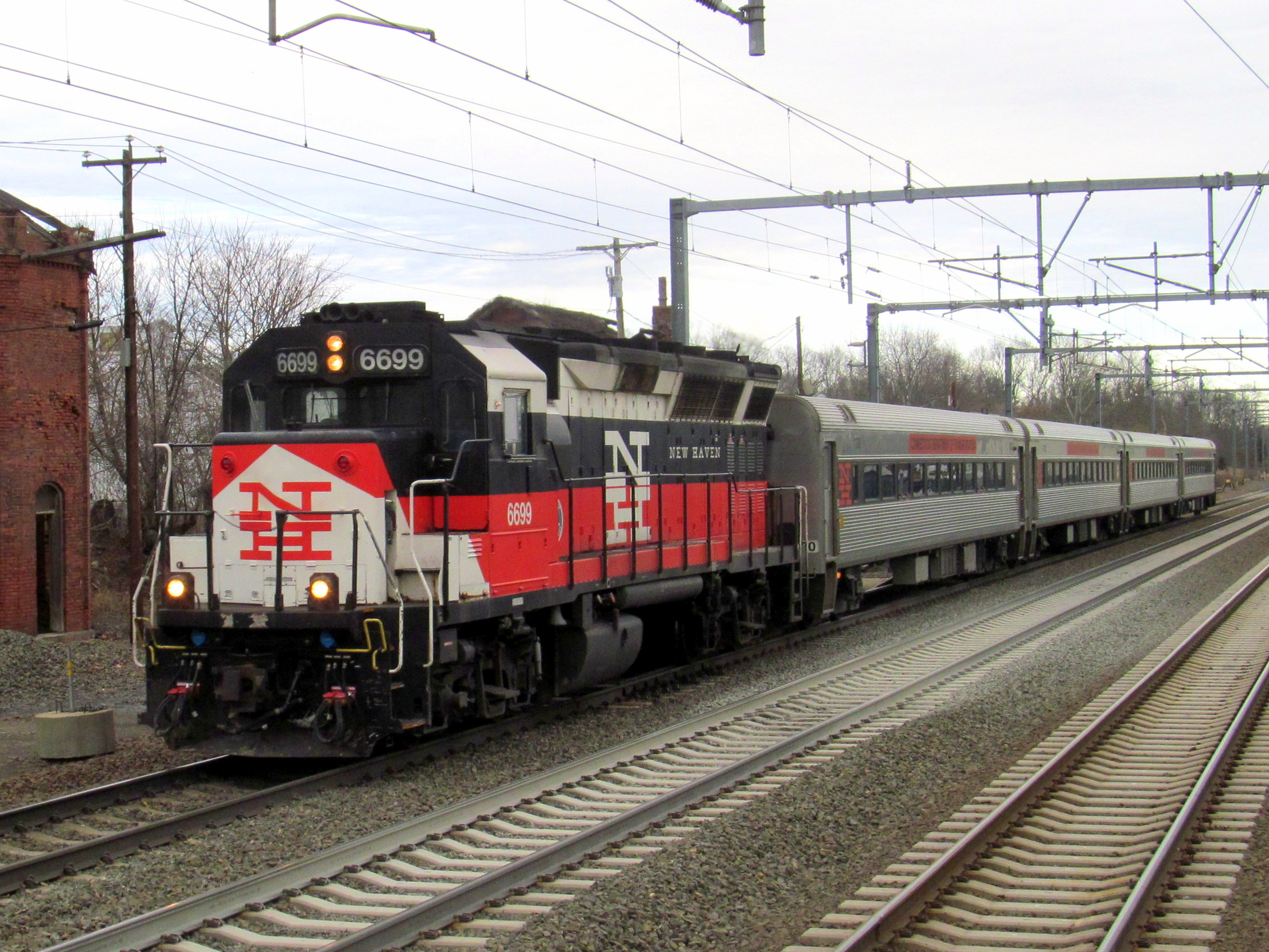 A westbound Shore Line East train approaches Guilford station in December 2015